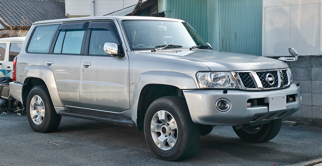 Nissan Safari 4door Wagon 4.8 Granroad Limited ( WFGY61 )